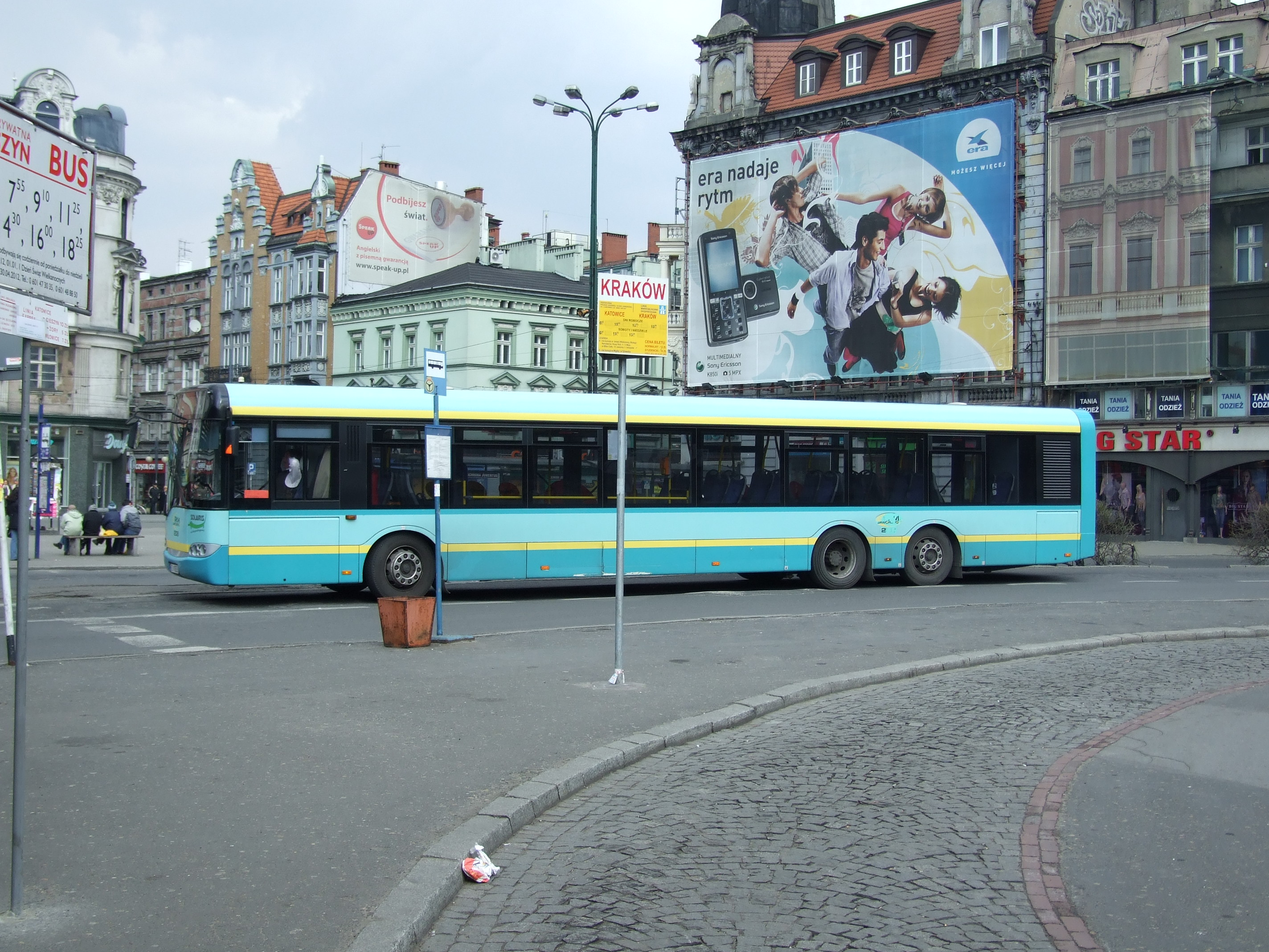 Public transport in Katowice, Poland. Solaris Urbino 15 Mk2 from PKM Jaworzno, built 2004.